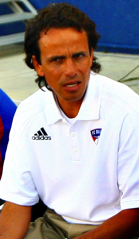 Oscar Pareja coaches at FC Dallas. Edited from original form.